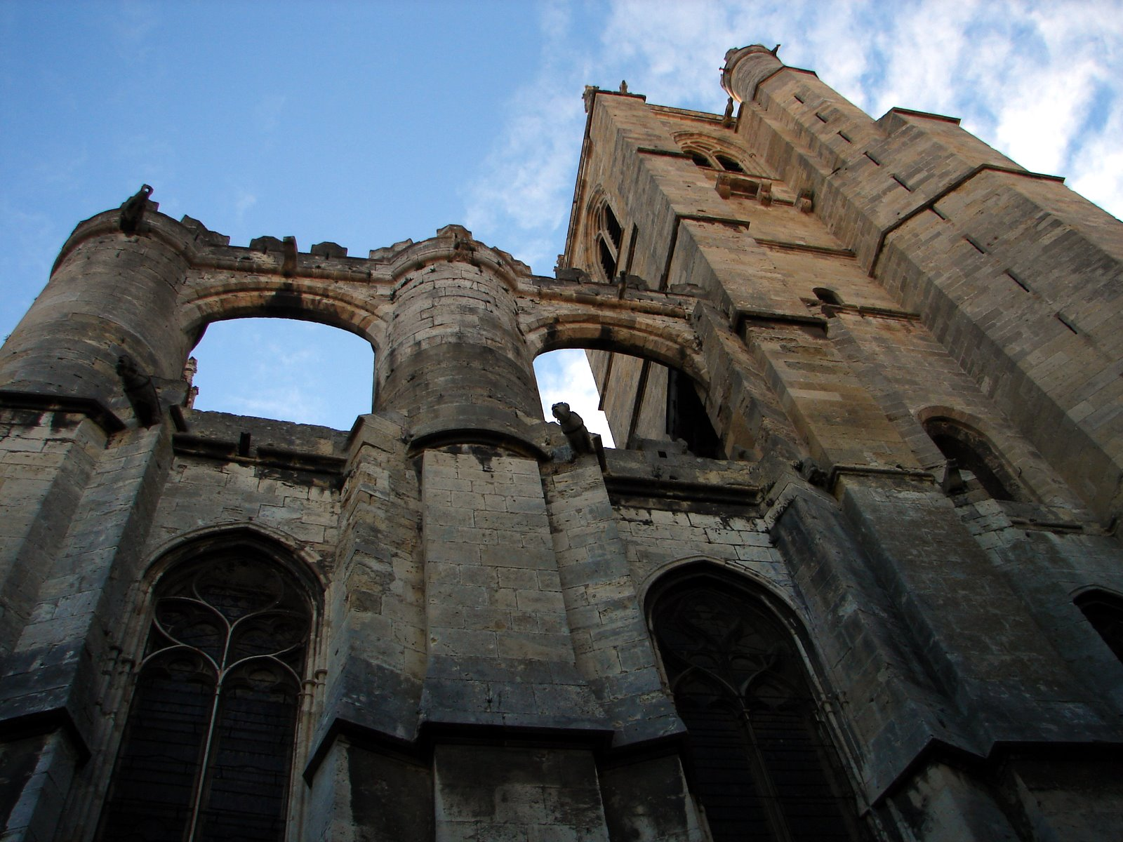 Part of the unfinished section of the Cathedral Saint-Just-et-Saint-Pasteur, Narbonne (Languedoc)